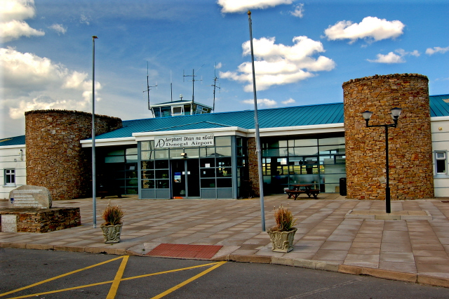 Donegal Carrickfin Airport - Terminal entrance The airport is relatively small, but cosy and very user friendly. The airport services Aer Arann primarily, along with other individual flights. The shop here has some interesting merchandise. We purchased a few items here before departing with our rental car.